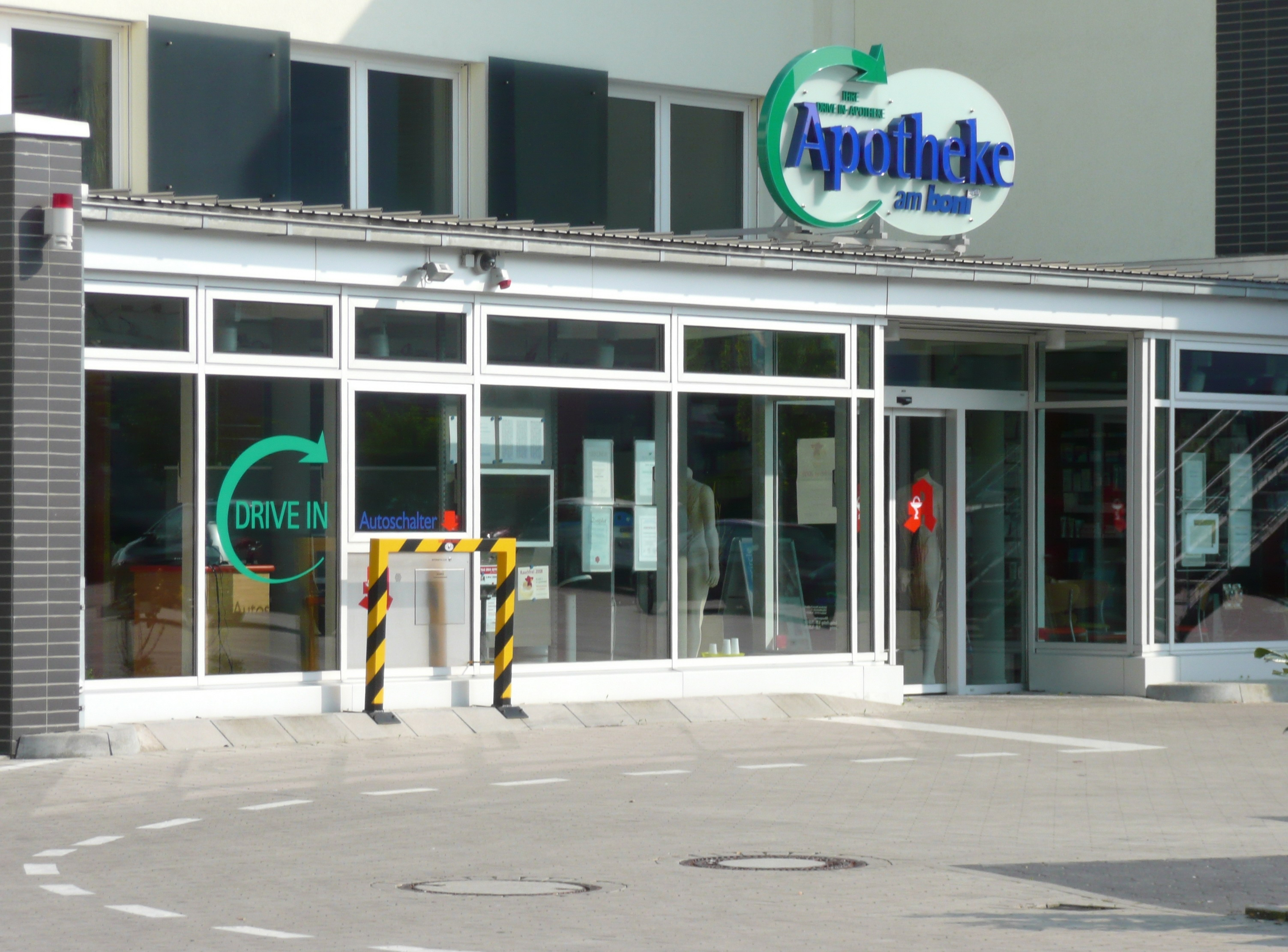 Pharmacy Apotheke am Boni-Center with drive-in service in Witten, Germany